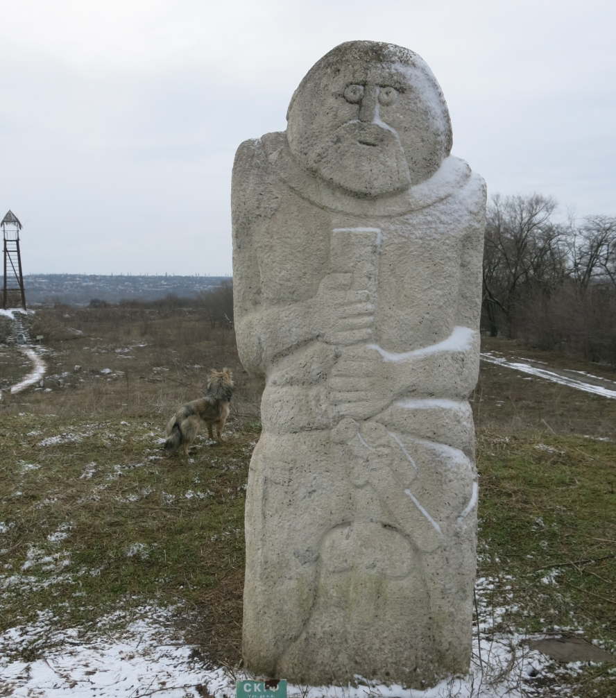 The Khortytsya Reserve. Scythian camp. Kurgan stelae at the Sentinel's Barrow.